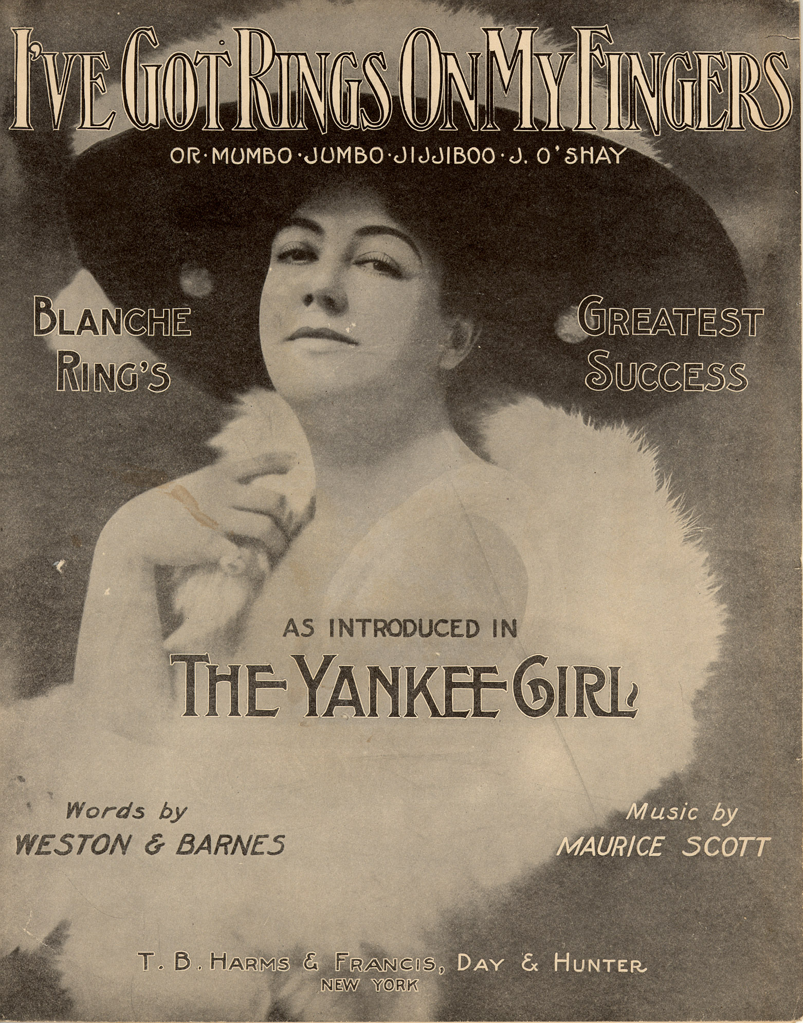 "I've Got Rings on my Fingers" sheet music cover, 1909. Has photo of singer Blanche Ring